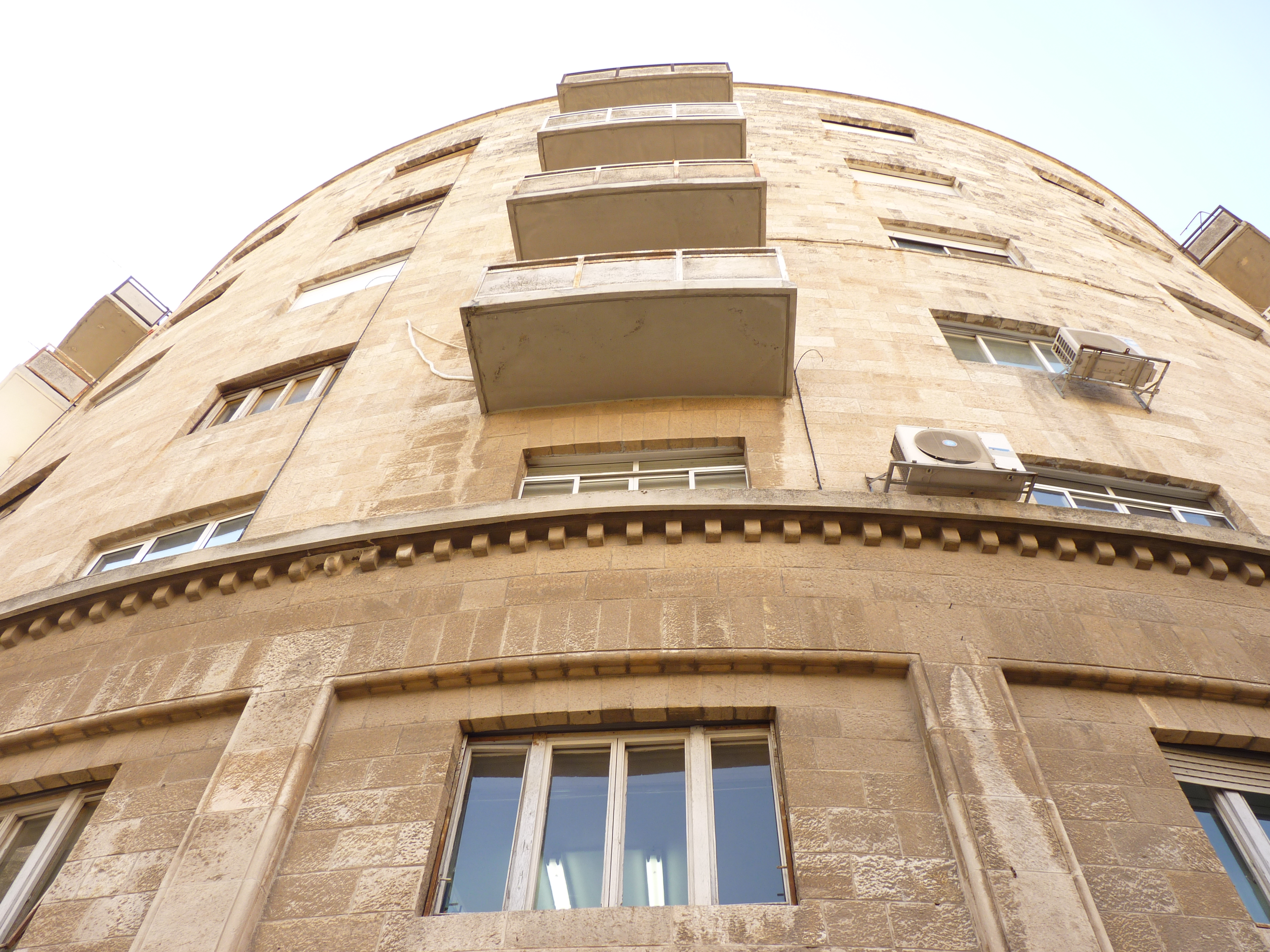 Jerusalem Architecture King George St. (corner with Hillel street) Jerusalem